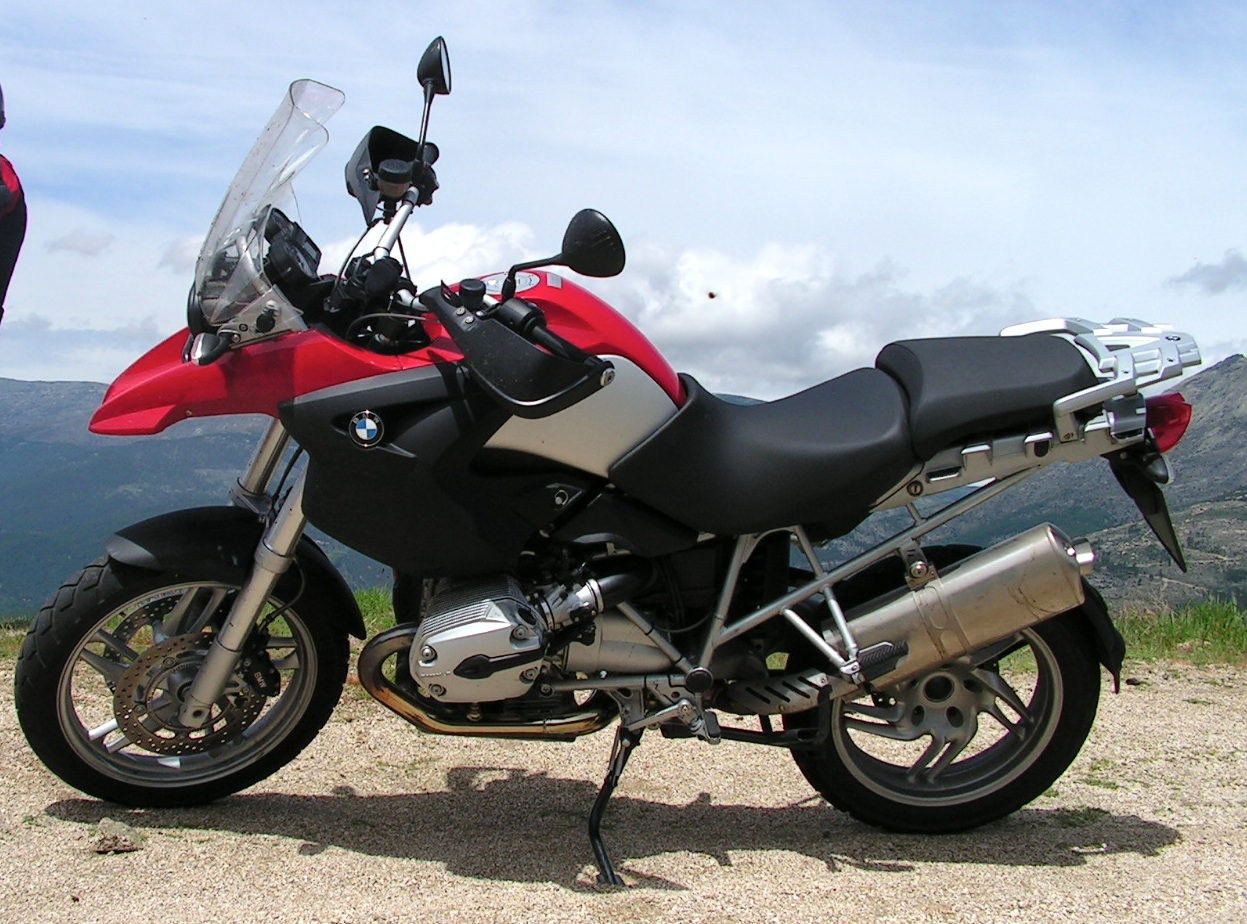 R1200GS left side view (Cropped from original image on Flickr to remove rider)